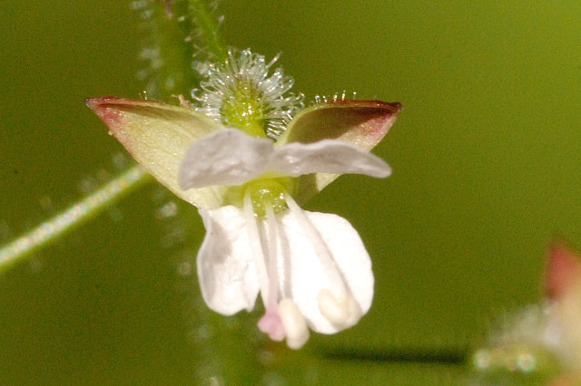 Circaea lutetiana from Commanster, Belgian High Ardennes .